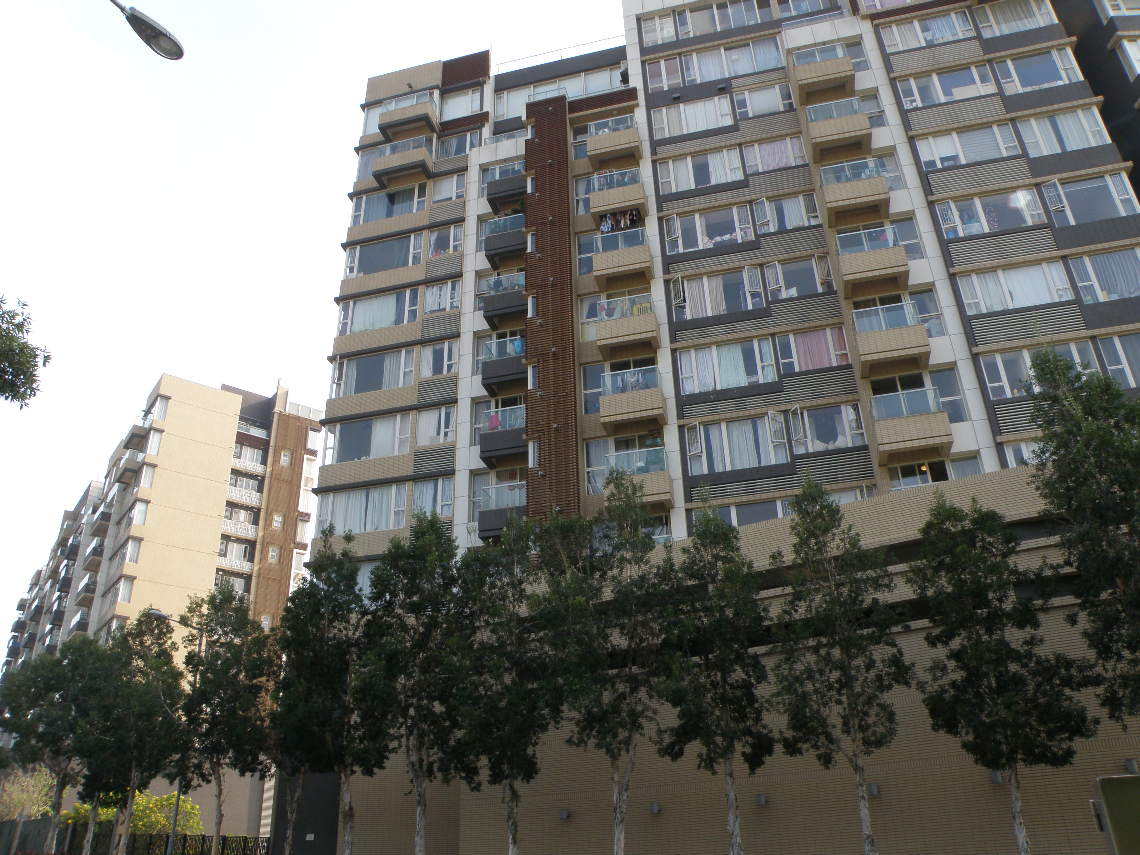 Avignon (Tower 1-5) in So Kwun Wat, Hong Kong.